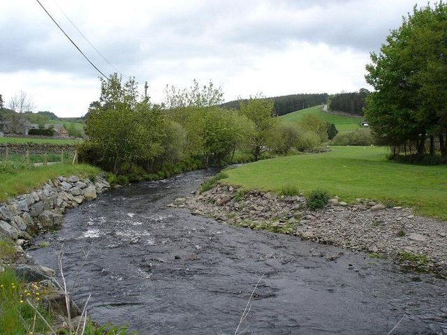 Afon Alwen. Afon Alwen as it flow through the hamlet of Pentre llyn Cymmer